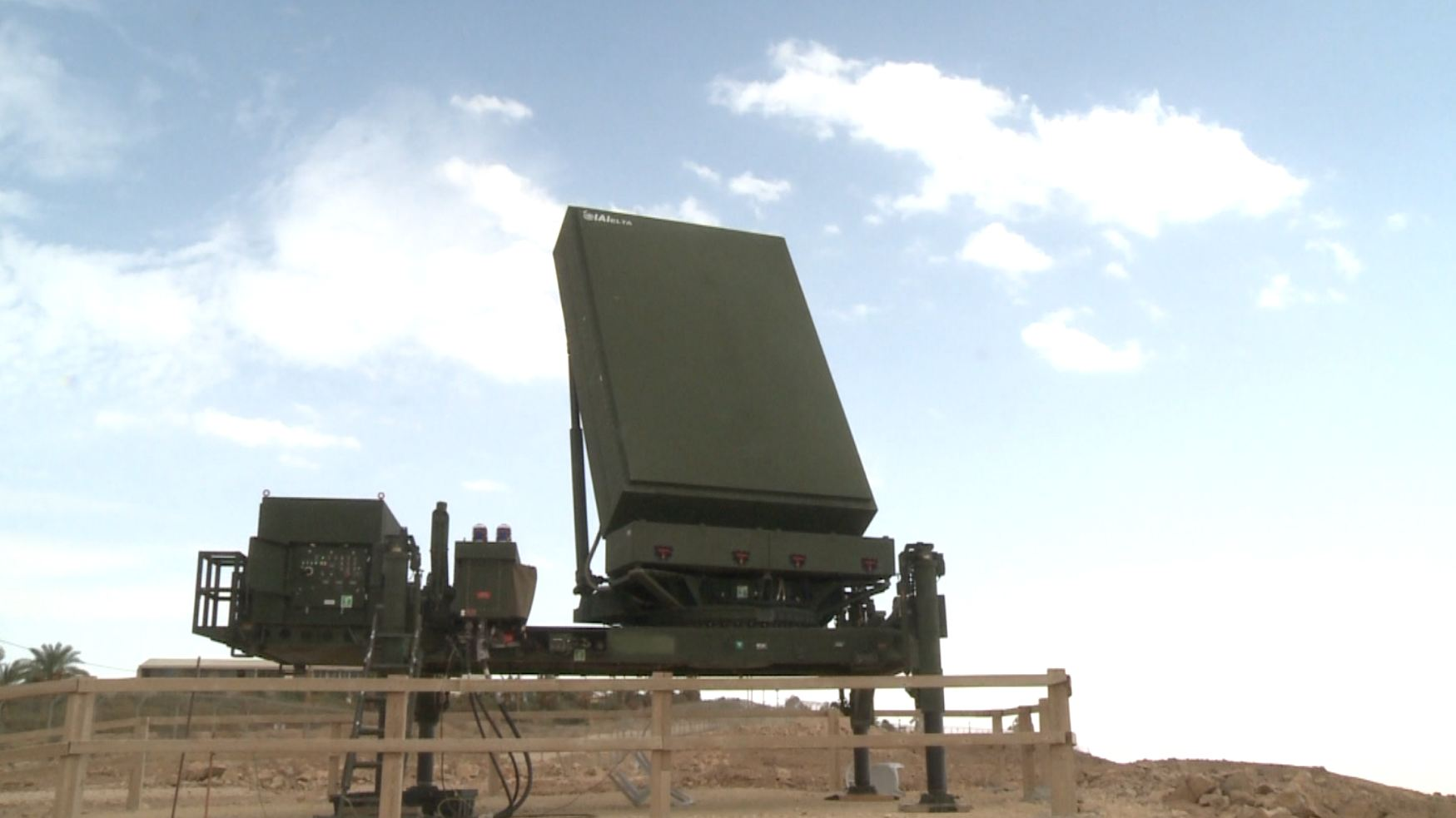 Elta's EL/M-2084 MMR radar's antenna. Used for both David's Sling and Iron Dome.